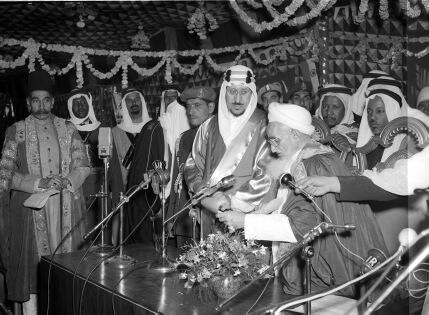 Syedna Taher Saifuddin, four time Chancellor of Aligarh Muslim University, conferring a honorary doctorate to King Saud on 7th December 1955 at Aligarh